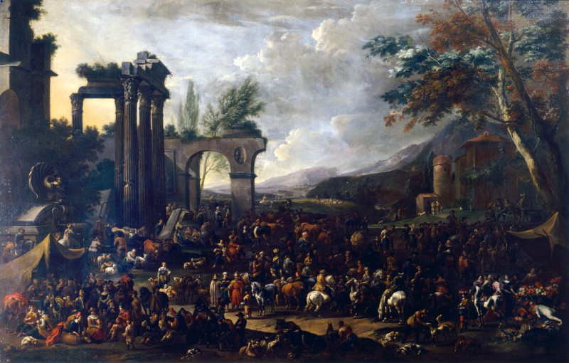 Height: 210 cm (82.6 in); Width: 330 cm (10.8 ft) dimensions QS:P2048,210U174728;P2049,330U174728